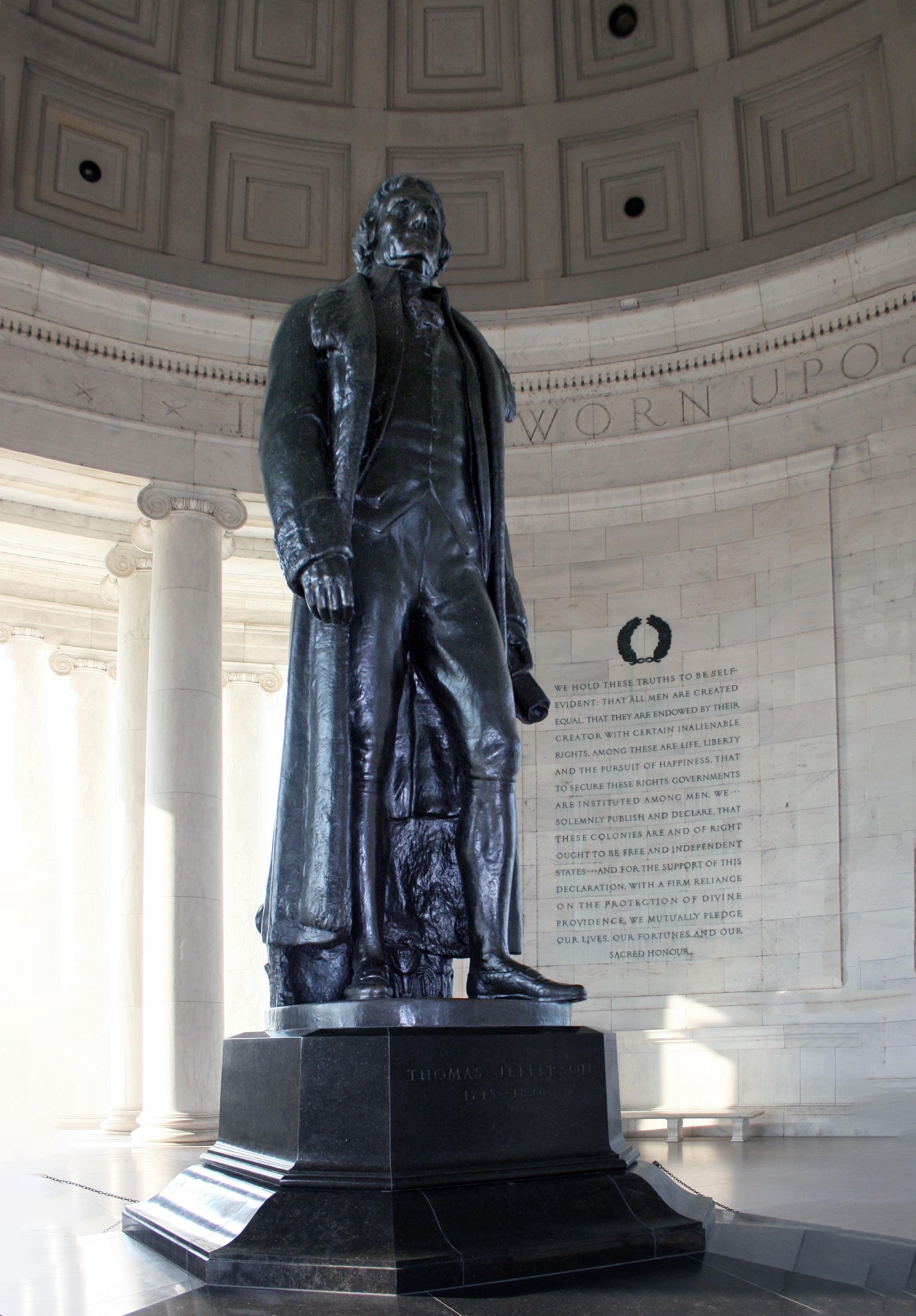 Thomas Jefferson Memorial, S bank of the Tidal Basin SW